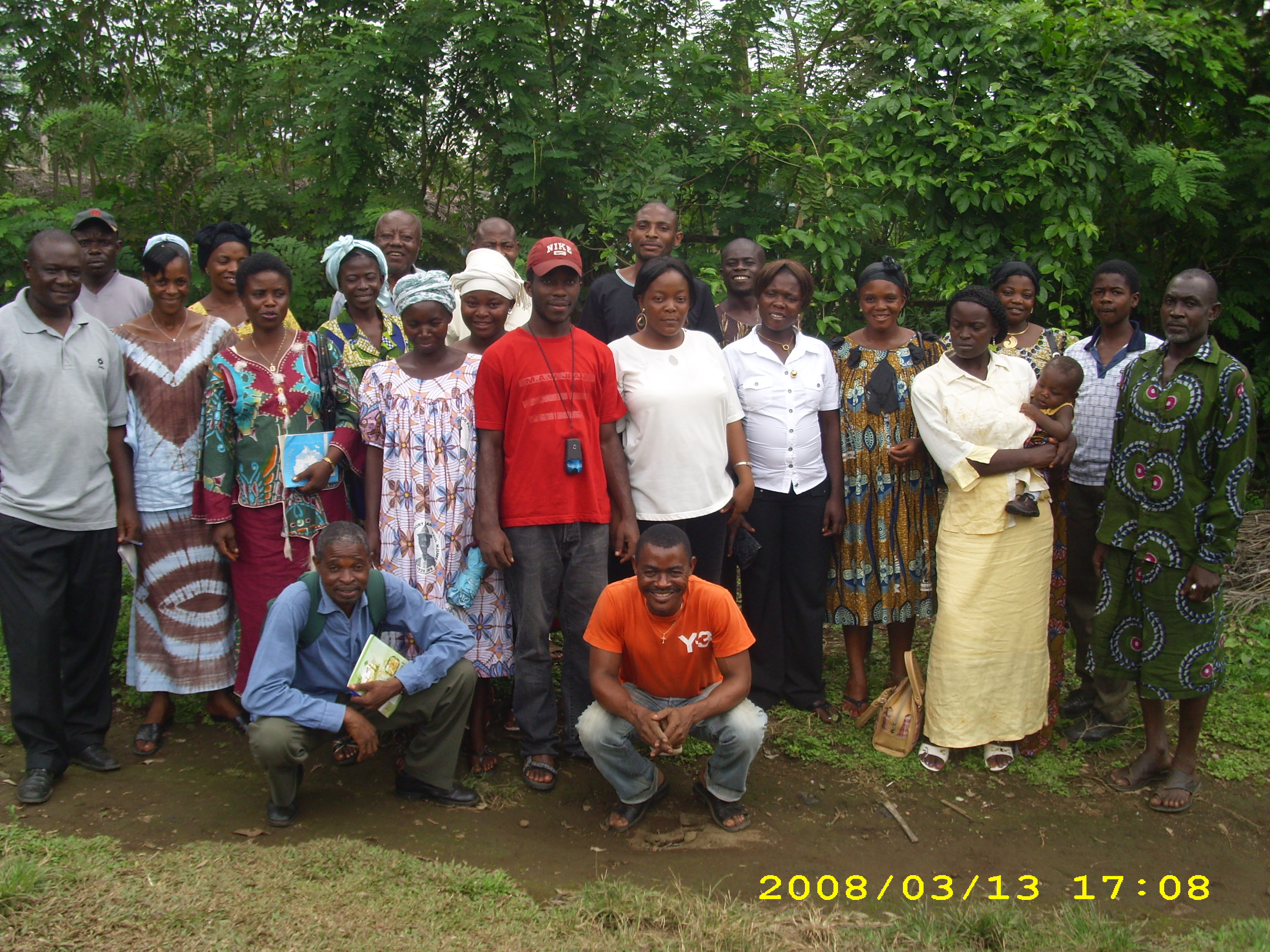 Kupe Manenguba Division (SW Province, March 2010, Group picture with participants from Goodwill farmers, Intensive cultivation & Ngab young ladies farming groups after training. Camera: Polaroid i733 License on Flickr (2011-02-09): CC-BY-2.0 Flickr tags: treesftf, cameroon, agroforestry, 2010